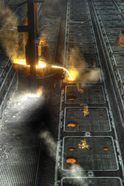 pig iron casting, in Heidenreich & Harbeck AG foundry